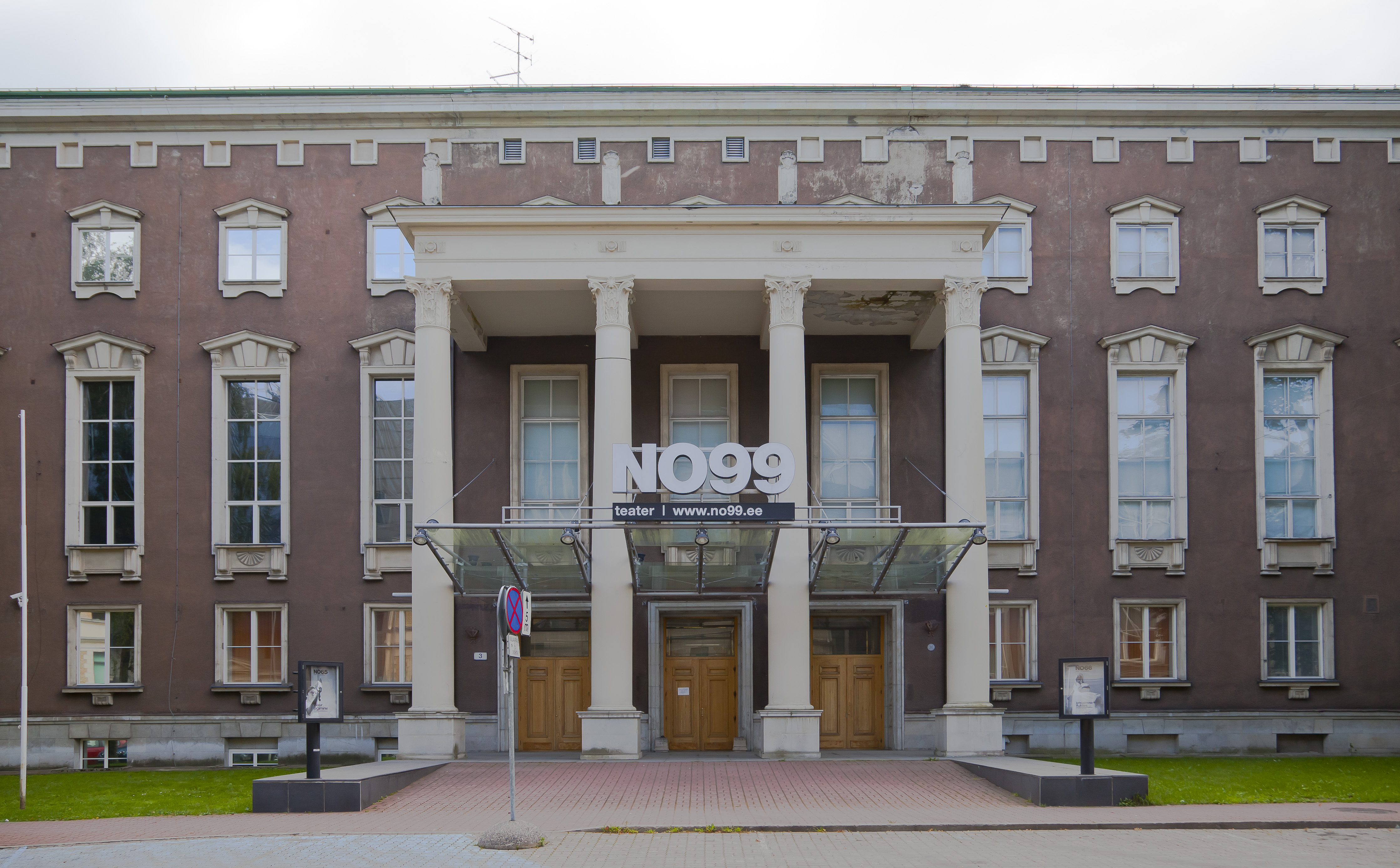 NO99 Theater, Tallinn, Estonia